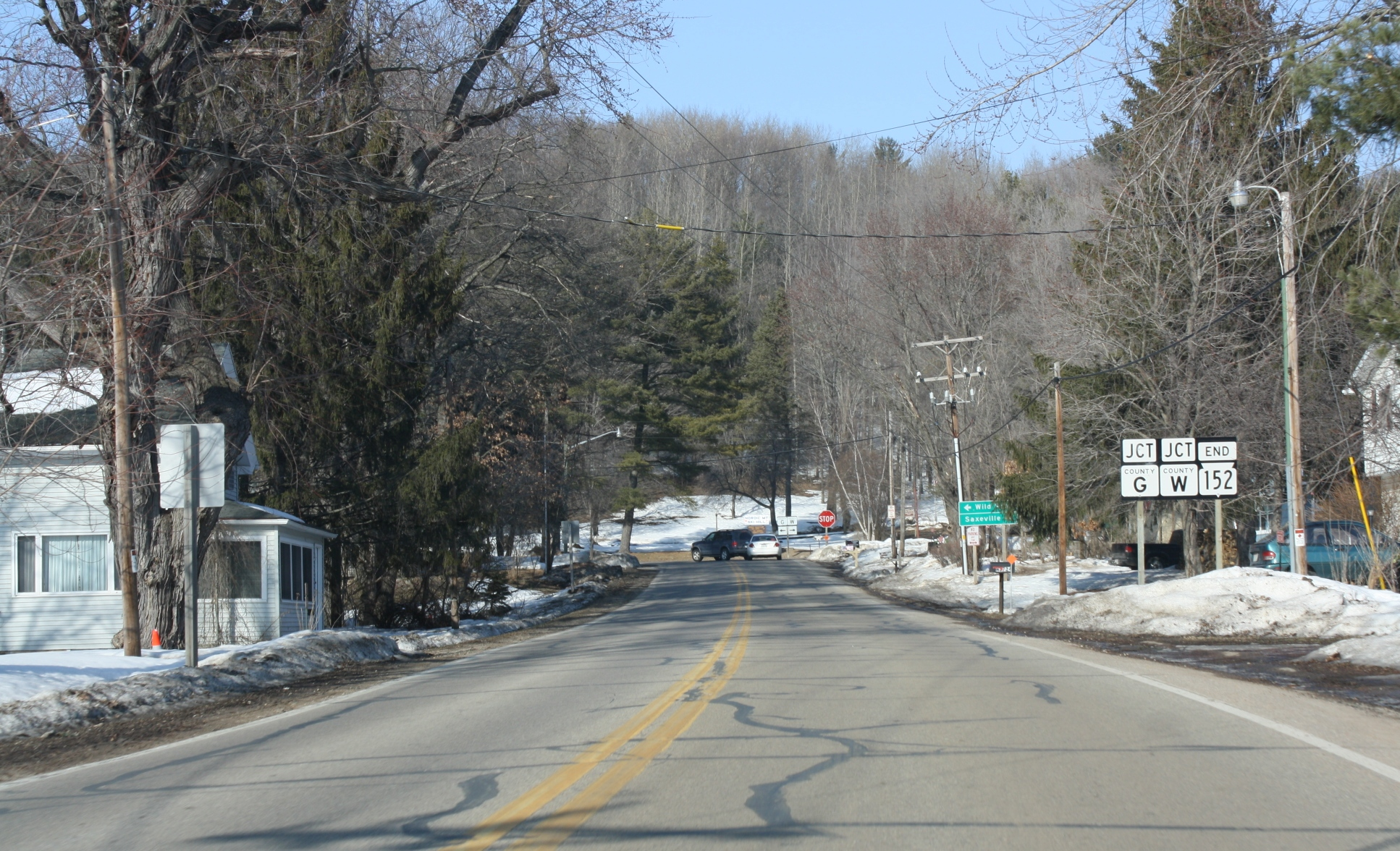 Looking north at the eastern terminus for Wisconsin Highway 152 in the community of Mount Morris (community), Wisconsin.